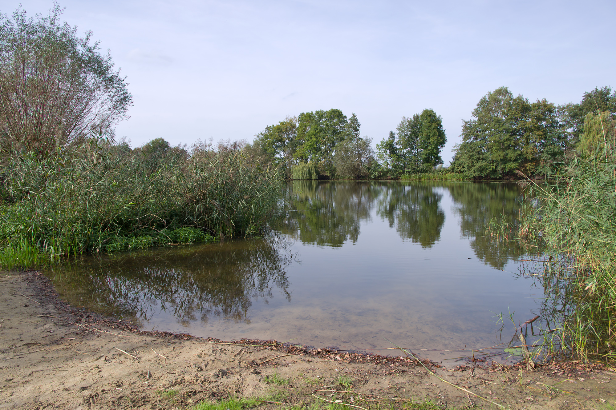 Gümser See ("Lake Gümse") in northern Germany.